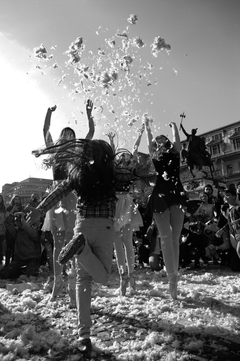 500px provided description: Ballerinas at the pillow fight [#black and white ,#pillow ,#blackandwhite ,#feathers ,#ballerina]